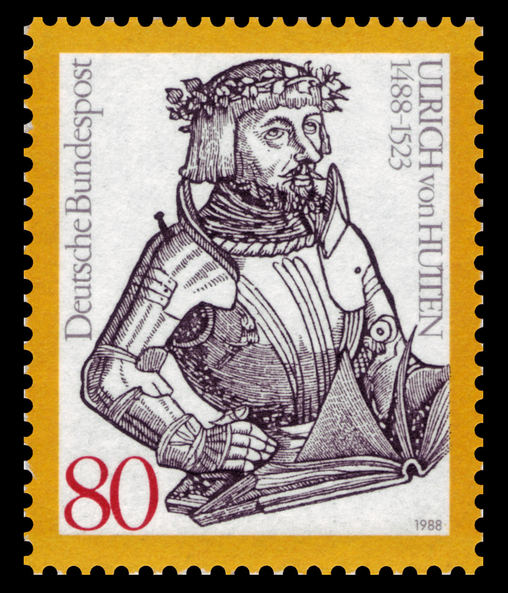 500th day of birth of Ulrich von Hutten (1488—1523)